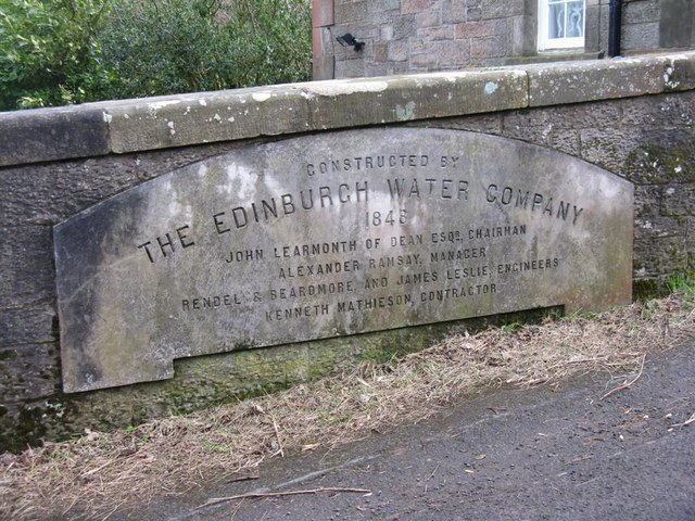 The Edinburgh Water Company - 1848 Construction details for Torduff Reservoir, in the wall just by the reservoir house.